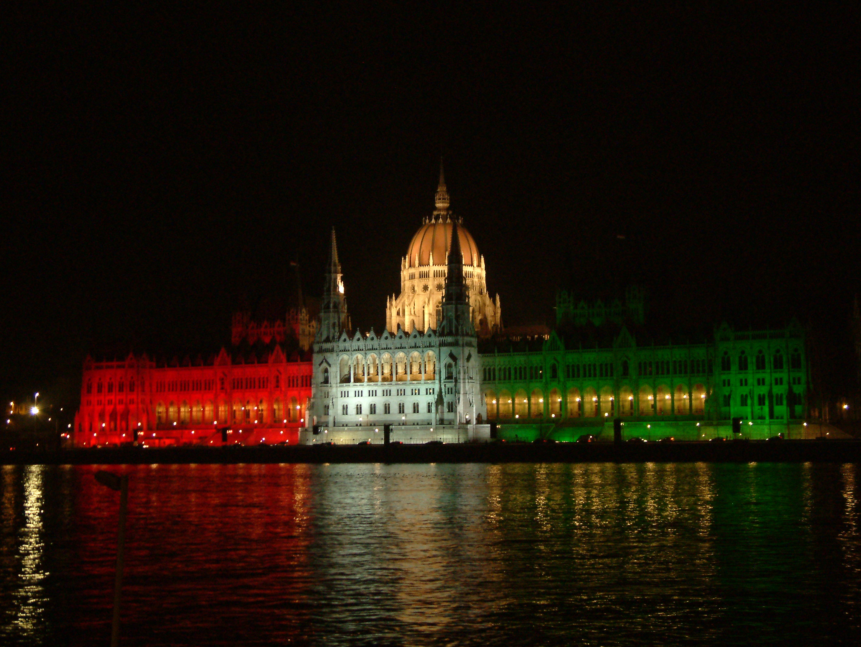 Parliament of Hungary in national colours for the national holiday 23 October